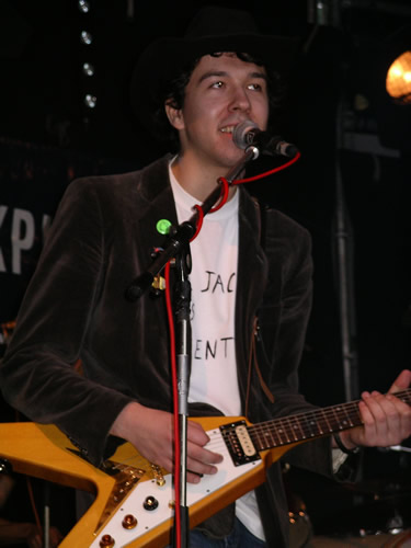 Dallas Explosion is a music group from Waals-Brabant, Belgium